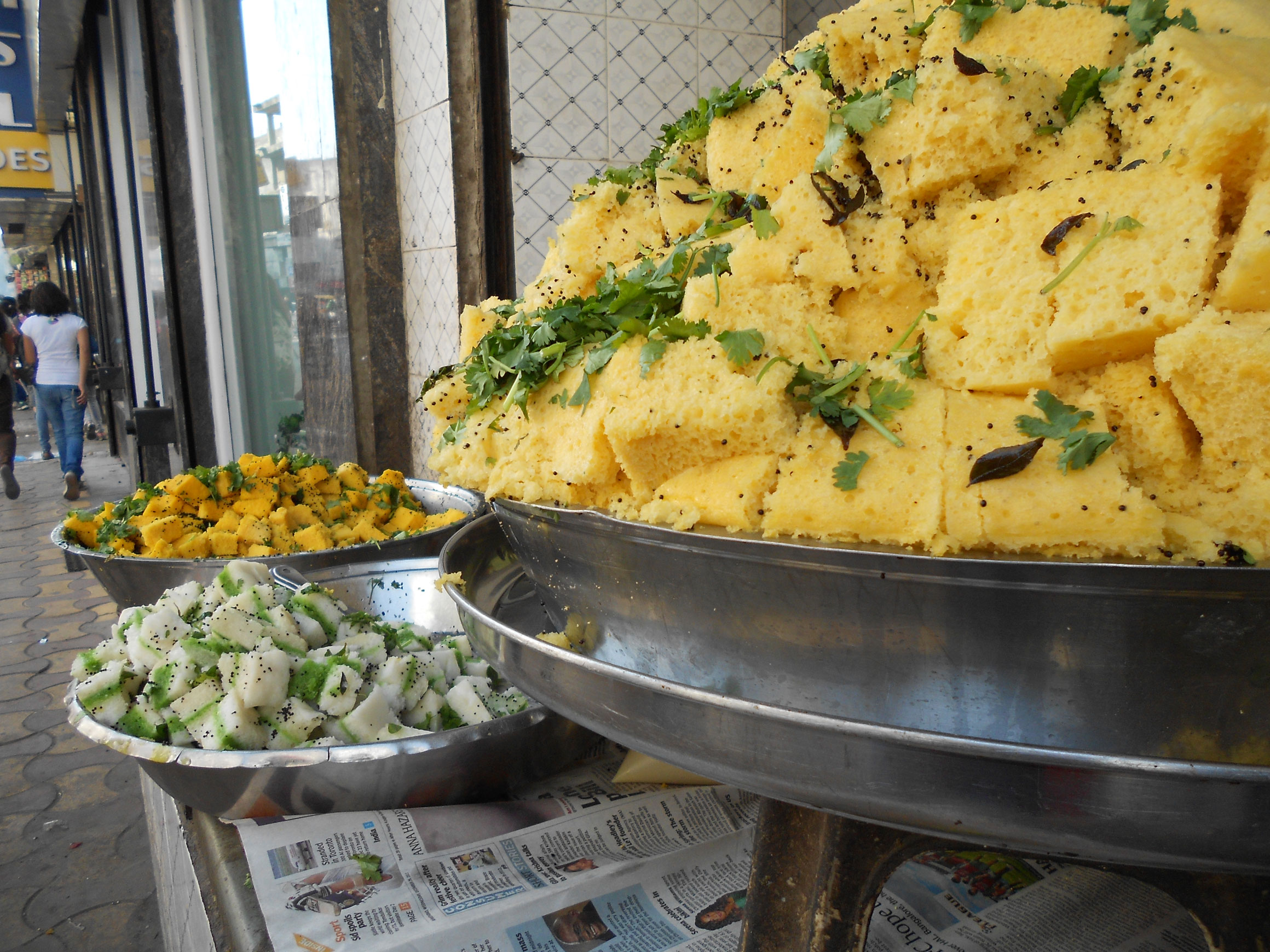 Famous Khaman , Sandwich Dhokla, Khandwi